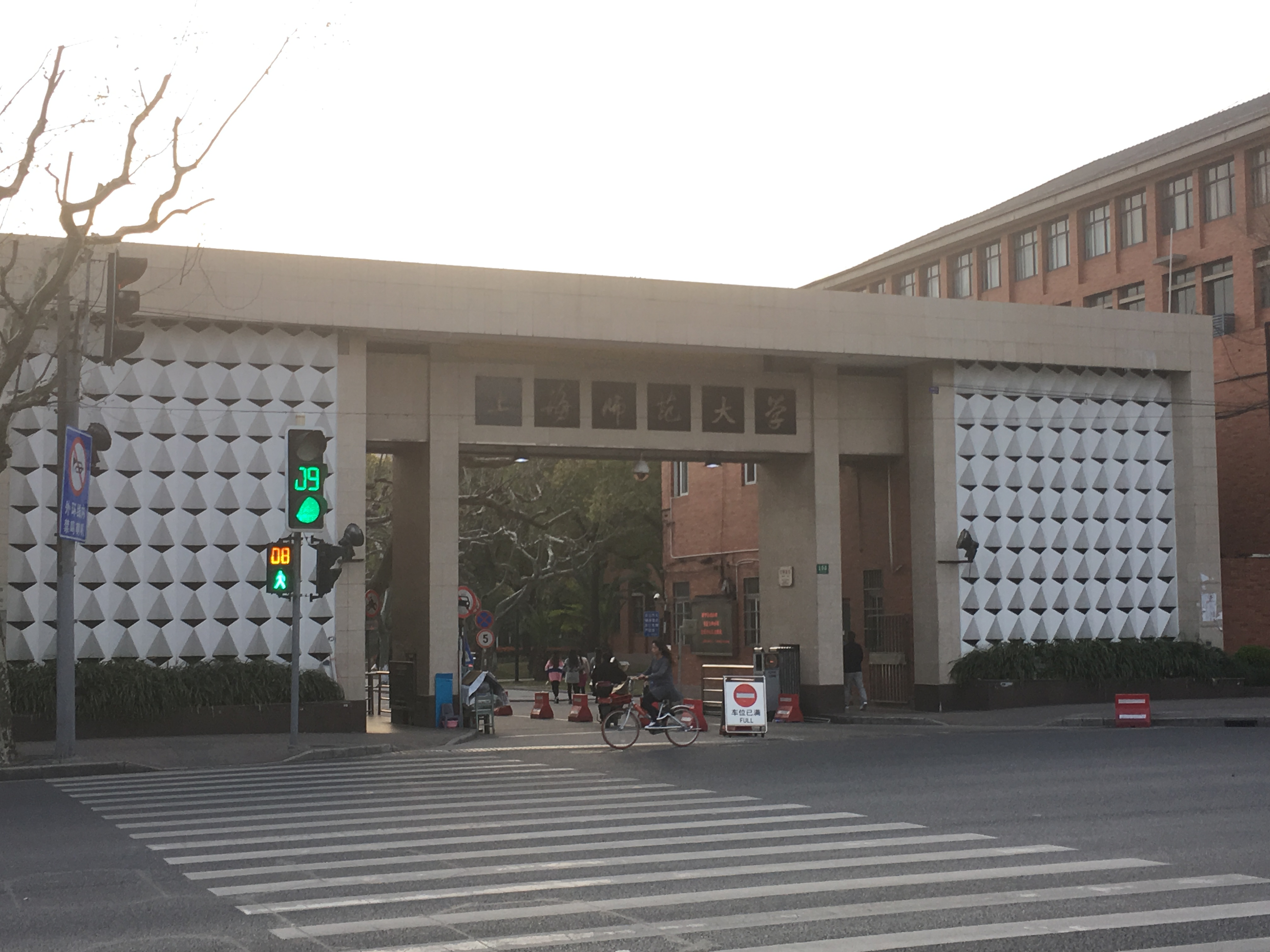 Shanghai Normal University, Xuhui Campus (on Guilin Rd)